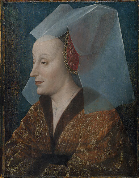 Portrait of a Noblewoman, Probably Isabella of Portugal (1397–1472)